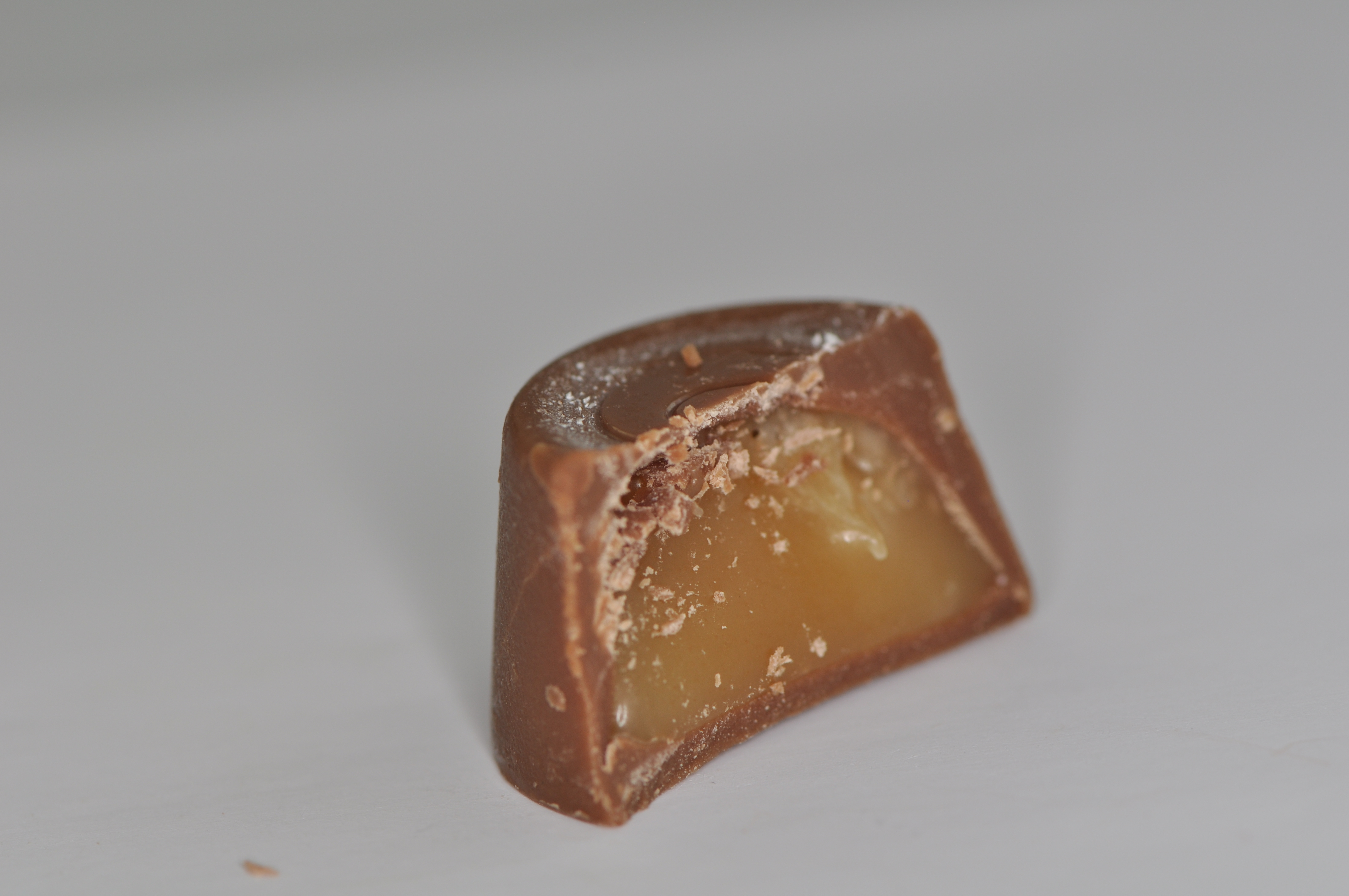 "Center", a toffee filled chocolate from Cloetta.